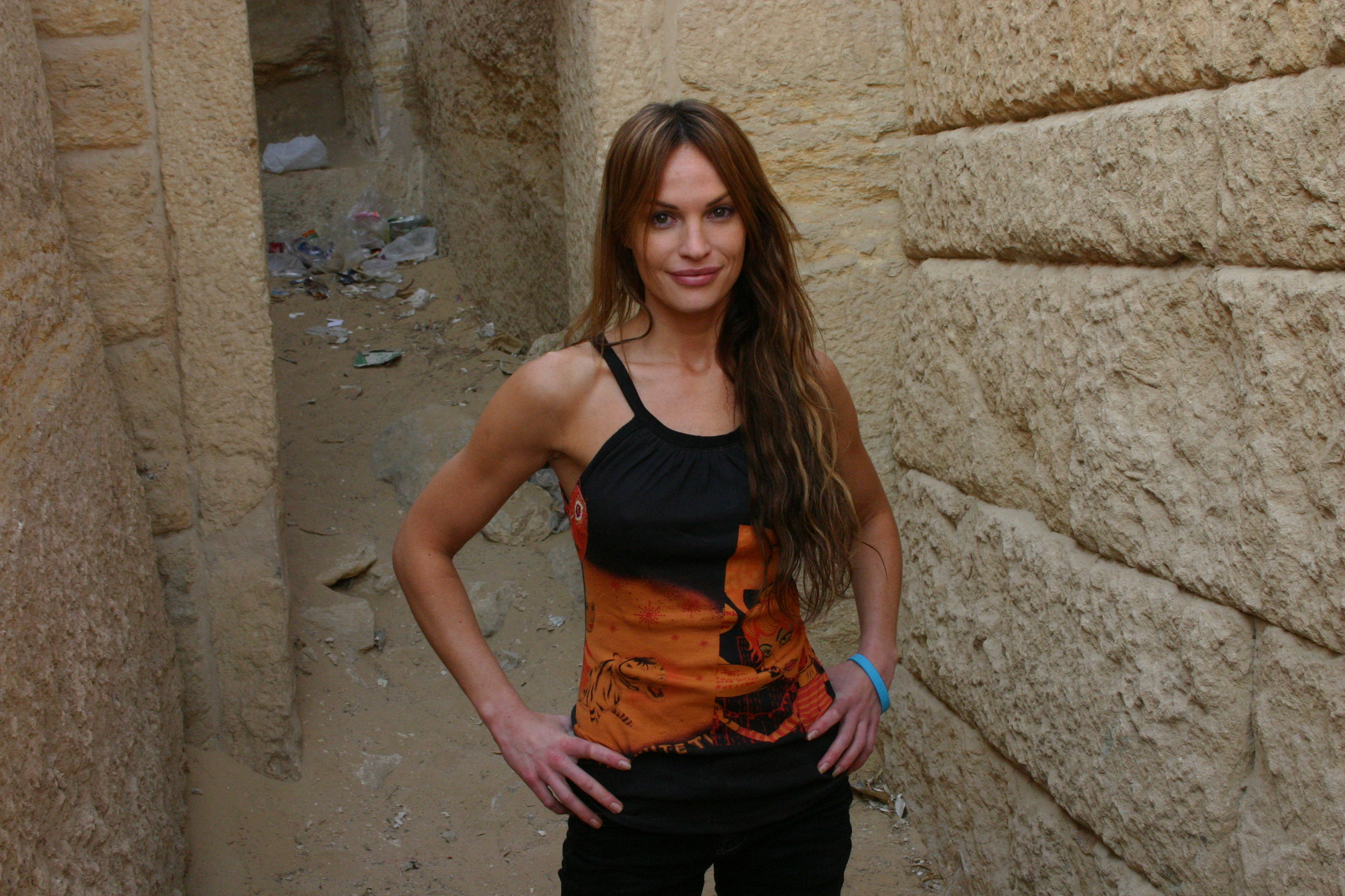 Jolene Blalock in Cairo, Egypt